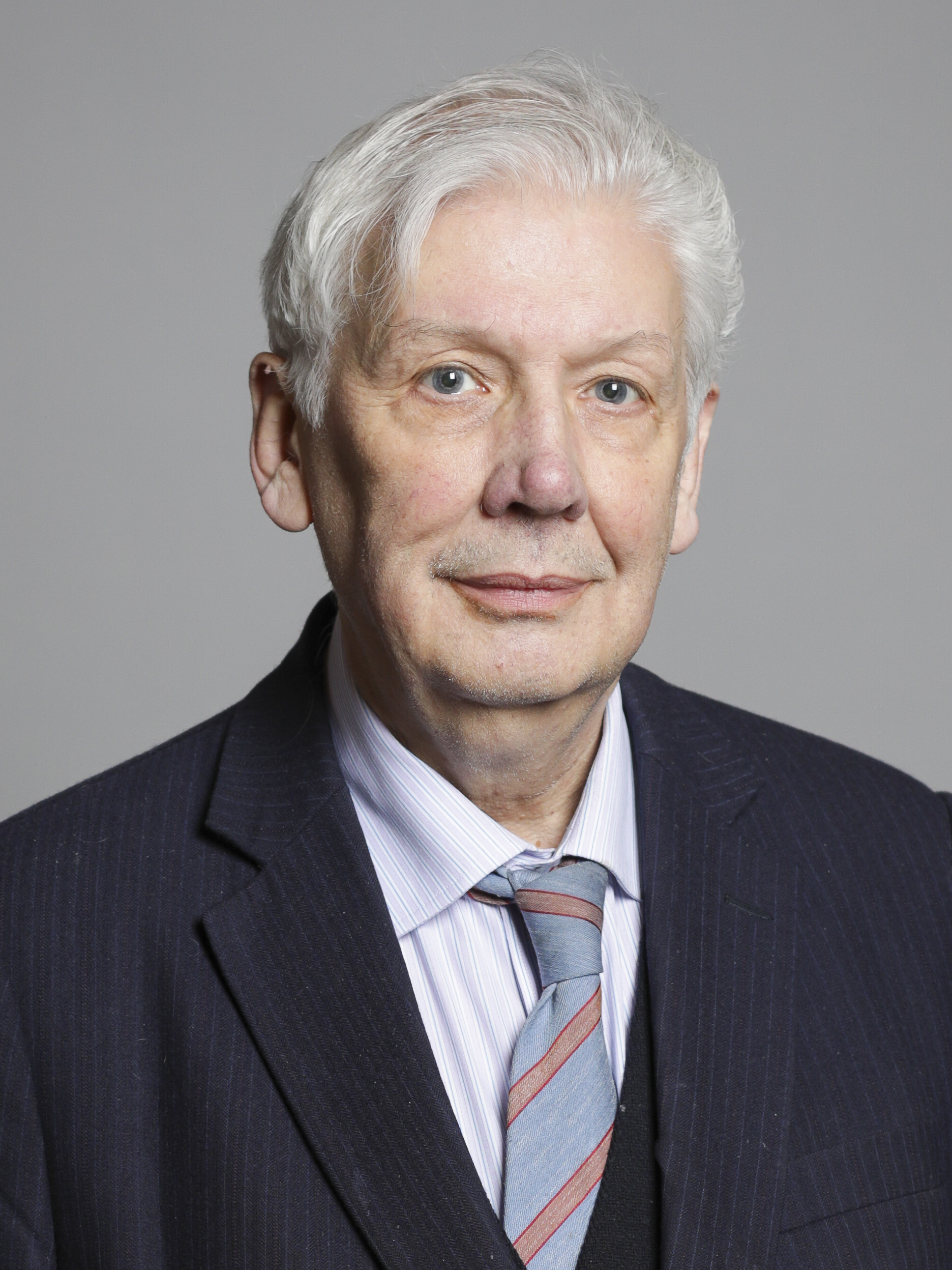 Official portrait of Lord Bew Full sized portrait of Lord Bew